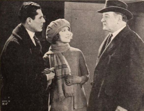 Still from the American comedy film Sheltered Daughters (1921) with Justine Johnstone, on page 85 of the June 4, 1921 Exhibitors Herald.